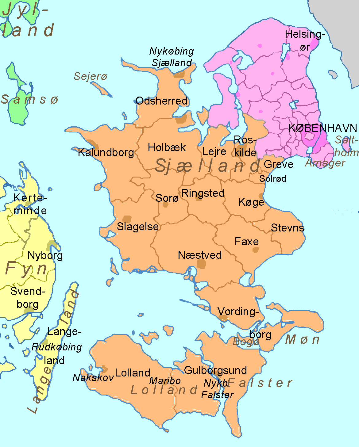 Municipalities of Denmark effective January 1 2007.